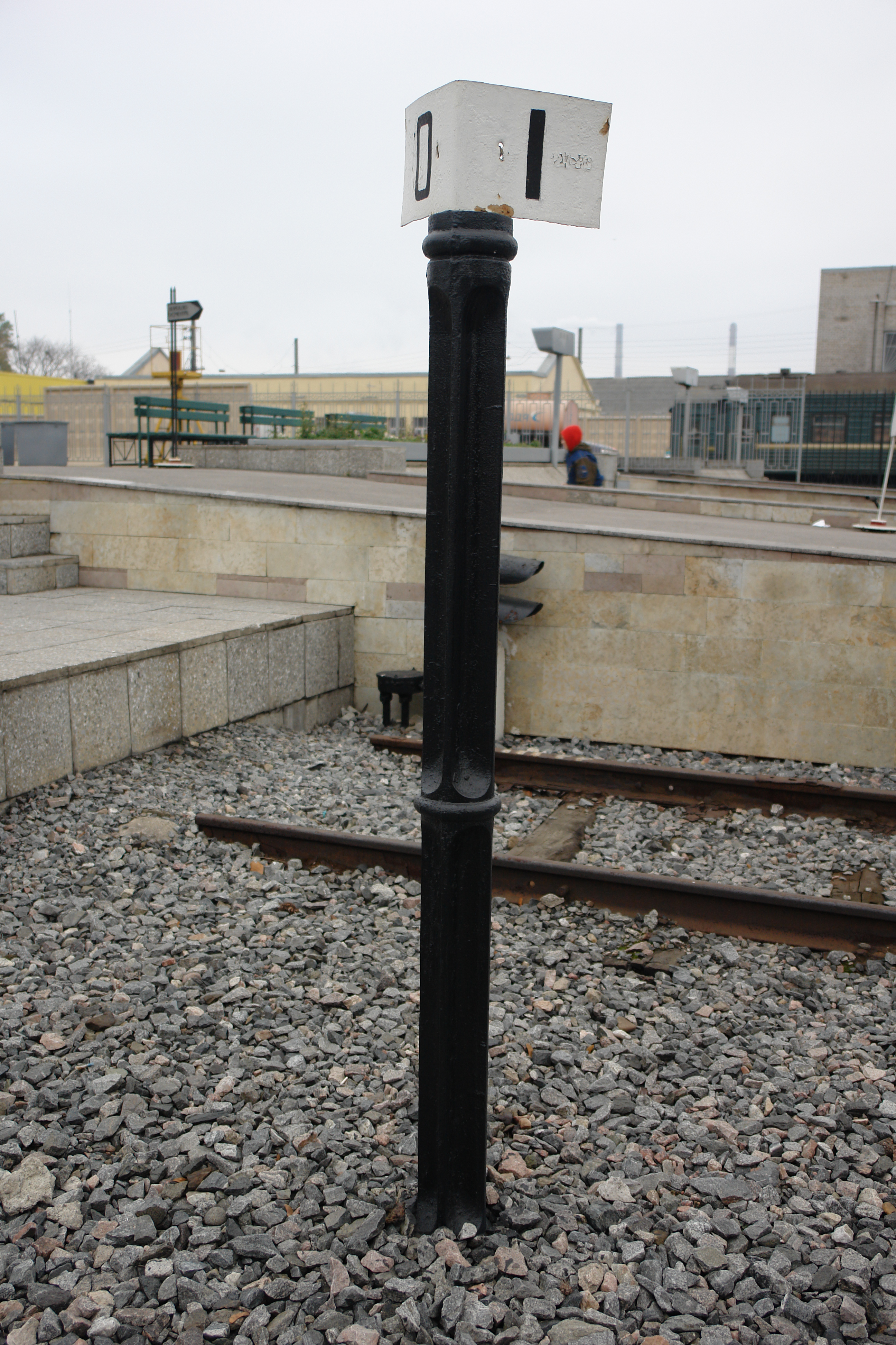 Milestone Used as a distance mark (versts) on the St.Petersburg-Moscow line. Built around 1860. (1 verst = 1.06 km) The post is made from cast iron. Transported to the museum from the vicinity of Okulovka station on the St.Petersburg - Moscow mainline.